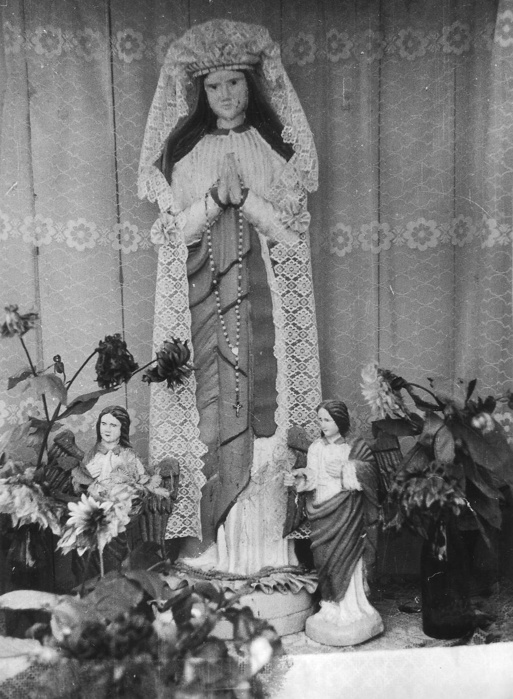 Kūlupėnai chapel, Kretinga district, Lithuania